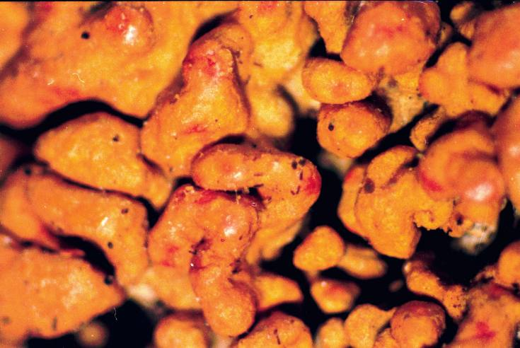 Xanthoria elegans (Link) Th. Fr., 1860 (photograph of a herbarium specimen taken through a dissecting microscope (x40) showing convex, reddish-orange lobes) Growing on rock in surf, along Highway 17, 3.4 miles N from Pancake Bay Provincial Park entrance, Ontario, Canada; collected and identified by Richard E. Riefner (No. 81-306, 27 Jun 1981); specimen is now in the Lichen Herbarium of the New York Botanical Garden.